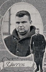 Auburn Tigers football guard "Coach" Warren